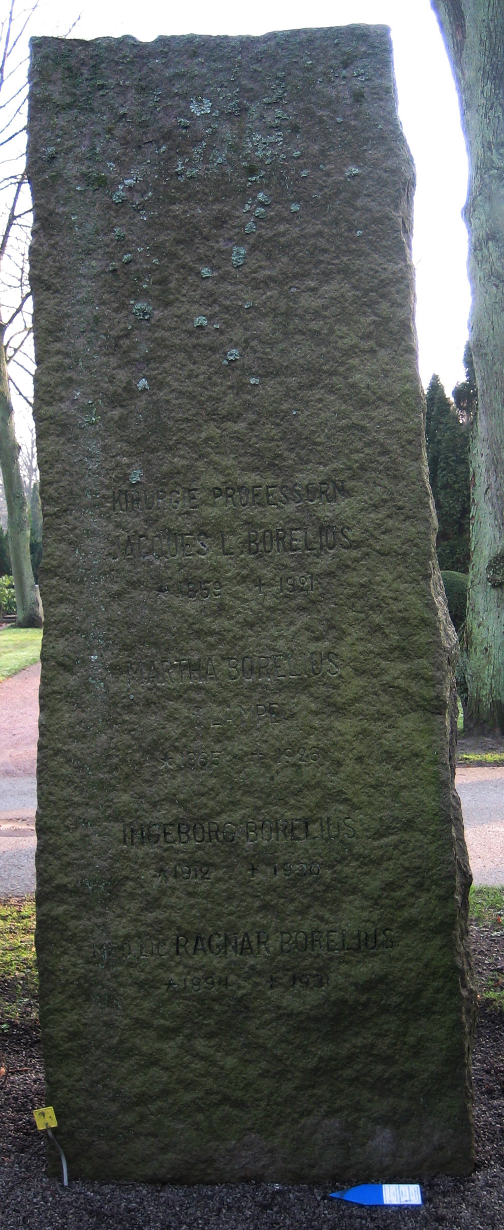 Grave of swedish professor Jacques Ludvig Borelius (1859-1921). Photo taken at Norra kyrkogården, Lund, Sweden, 090111 by the uploader.